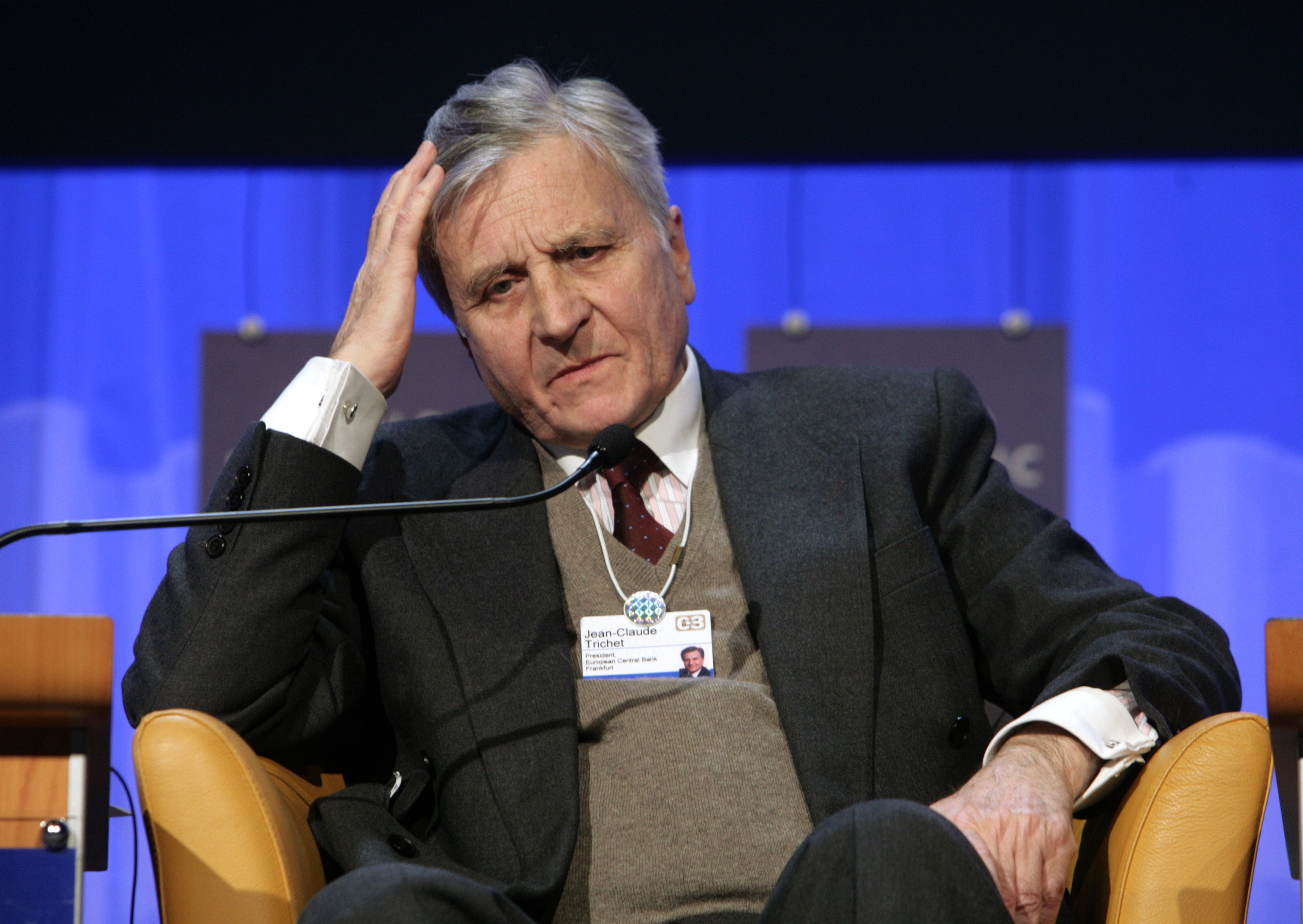 DAVOS/SWITZERLAND, 24JAN08 - Jean-Claude Trichet, President, European Central Bank, Frankfurt, captured during the session 'Systemic Financial Risk' at the Annual Meeting 2008 of the World Economic Forum in Davos, Switzerland, January 24, 2008.